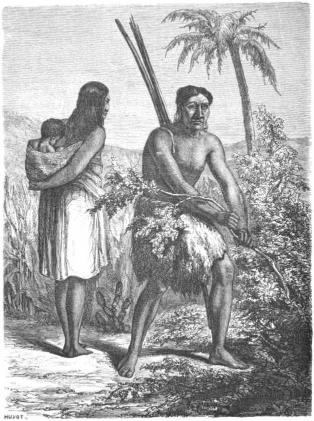 Lengua Indians (Enxets).